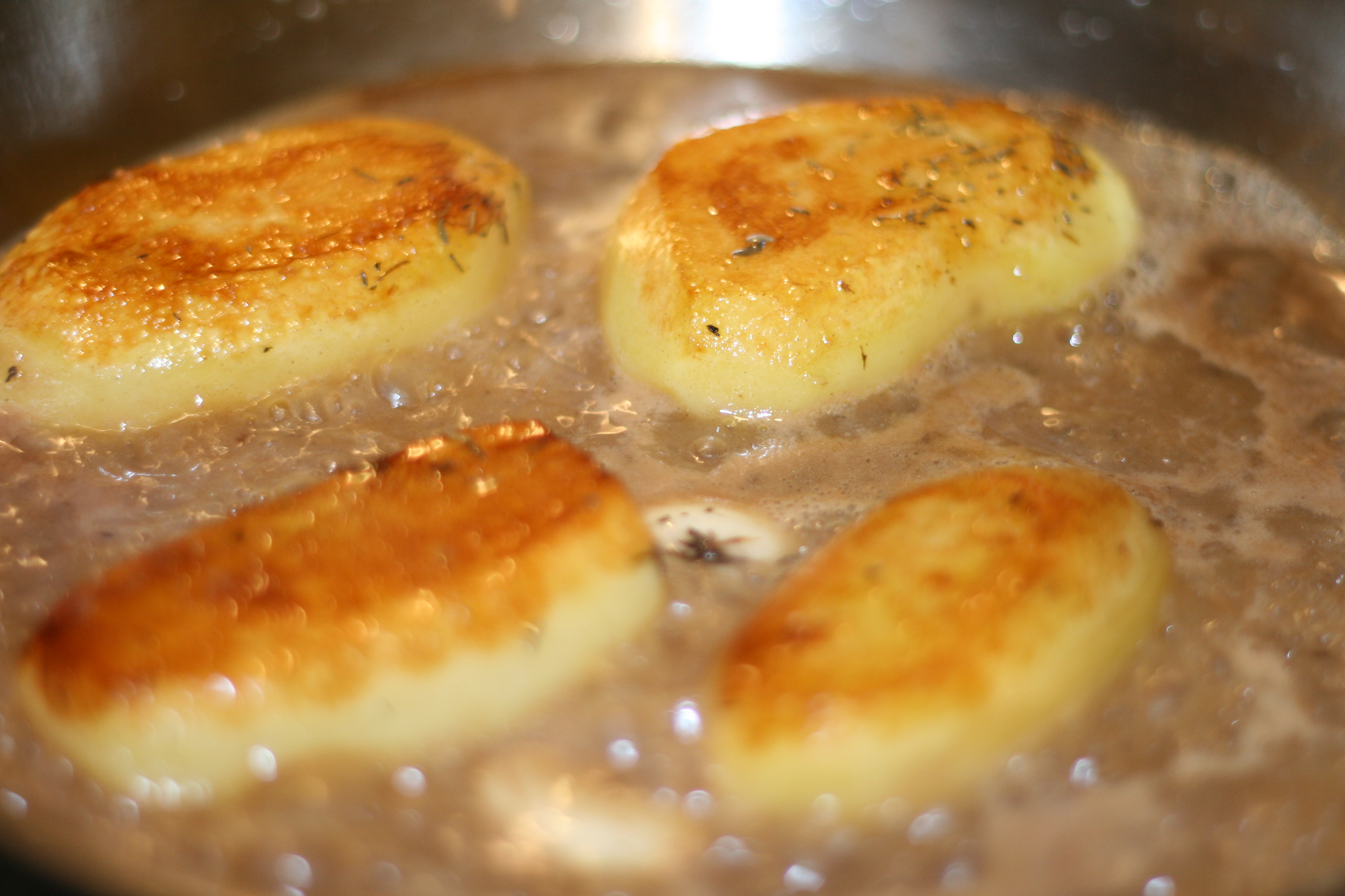 a variety of potato dish originating from england